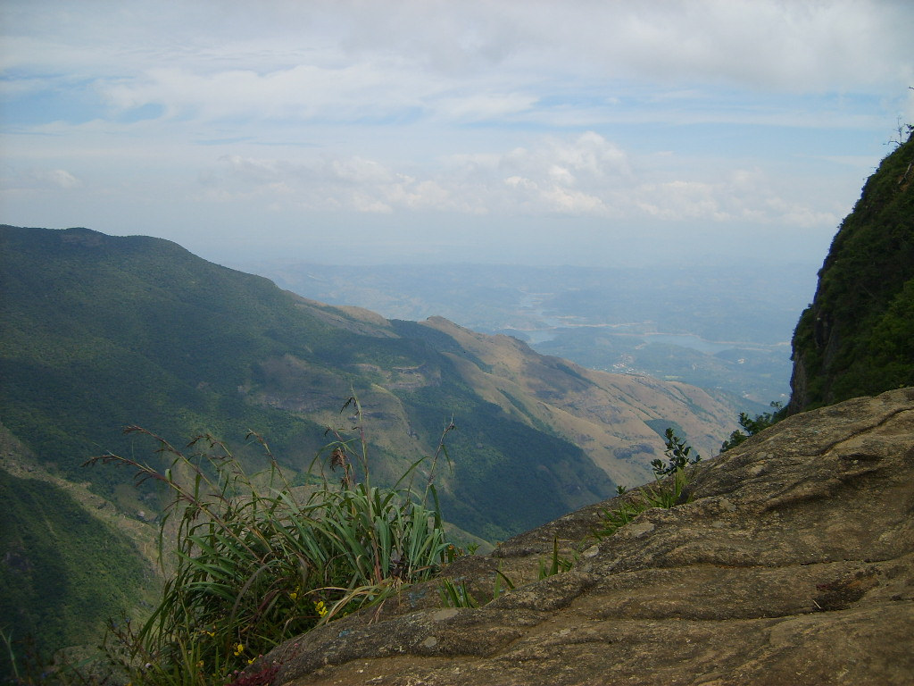 View of the lowlands below from "World's End" in Horton Plains National Park, Sri Lanka.